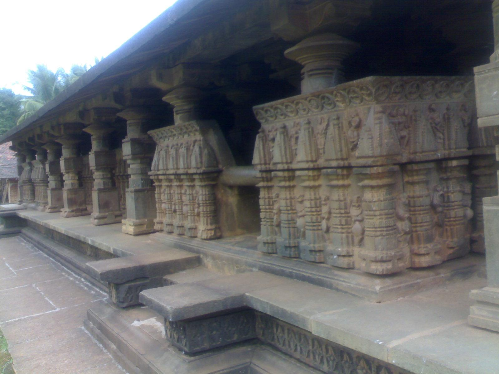 Kamala narayana temple Degaon, Belgaum District